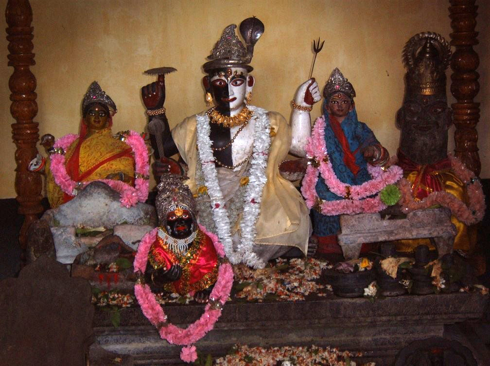 Harihara